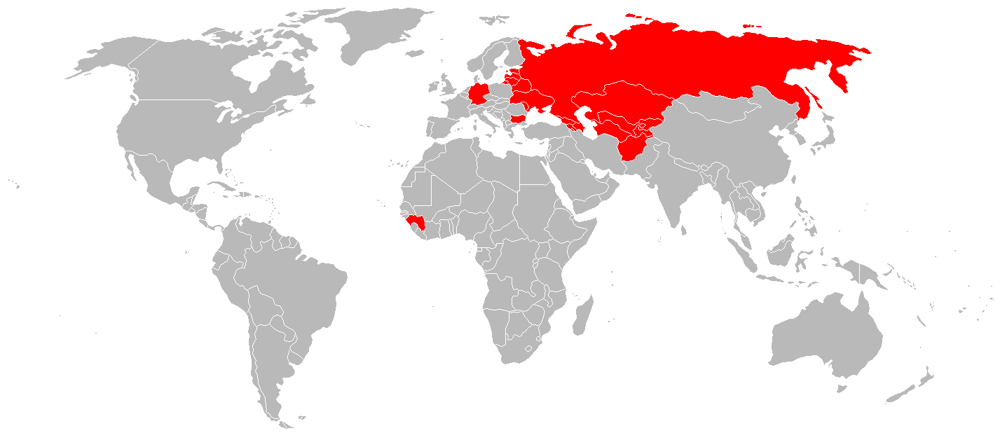 World map of Antonov An-14 operators